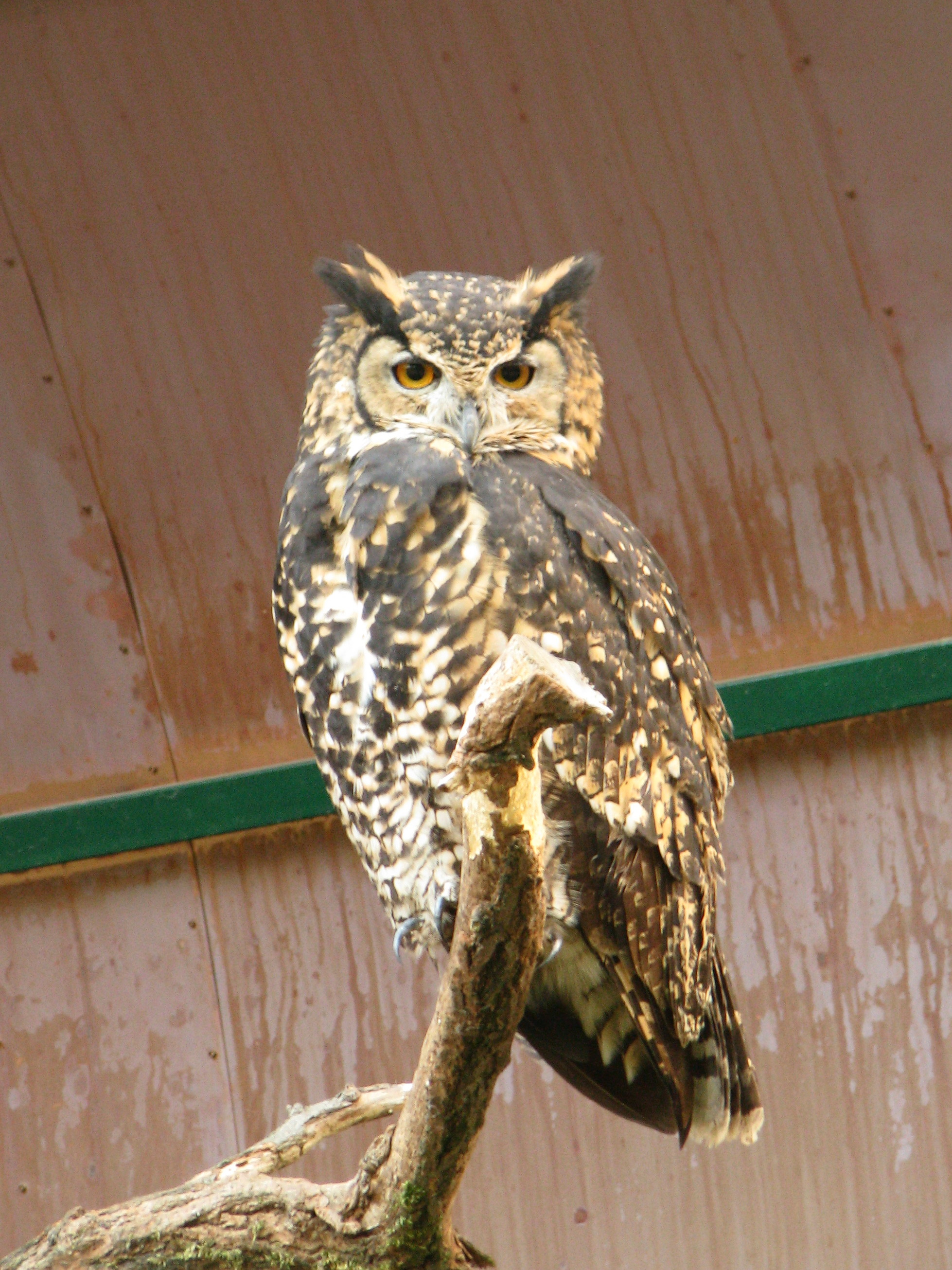 Mackinder's Eagle Owl (Bubo capensis mackenderi) in Berlin Zoopark